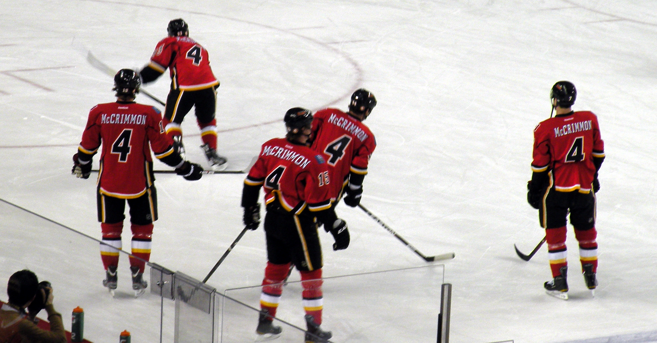 Calgary Flames players wear special uniforms during warmup prior to a National Hockey League game against the Detroit Red Wings in tribute to Brad McCrimmon, who died in the Lokomotiv Yaroslavl plane crash.